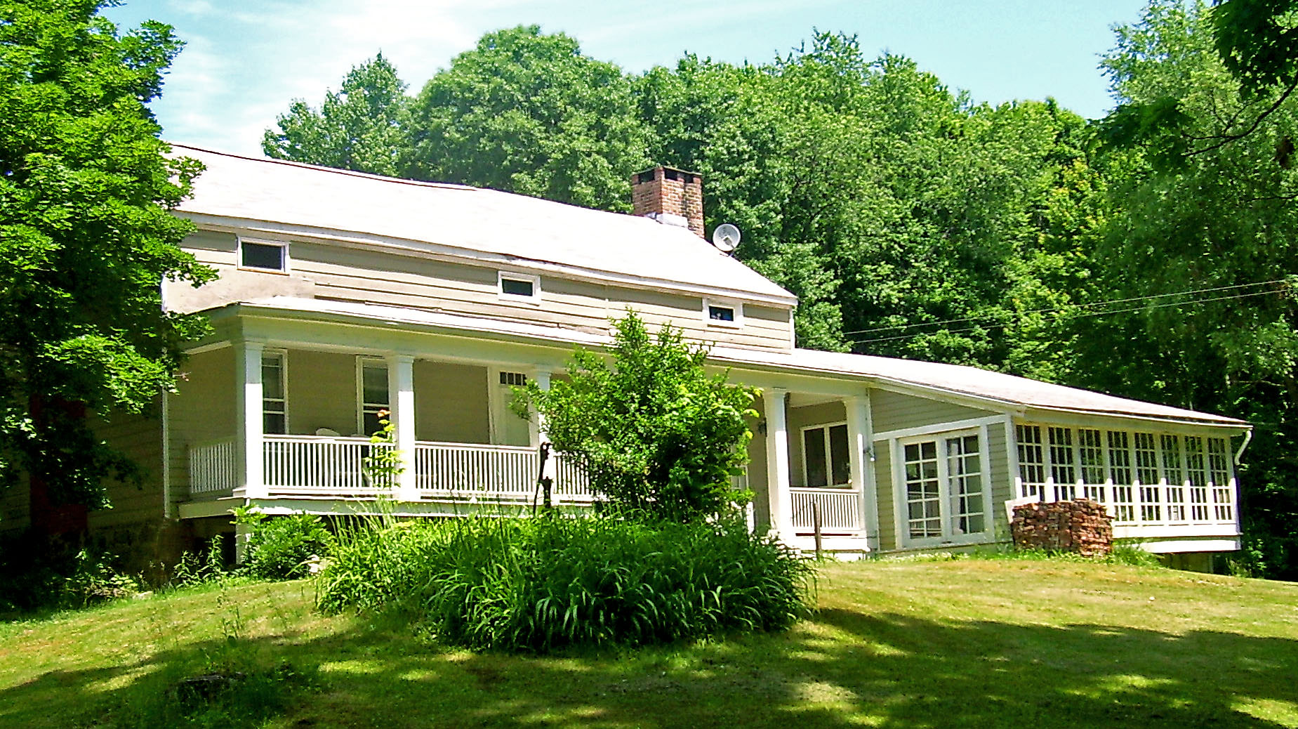 Photographed by Daniel Case 2007-06-11